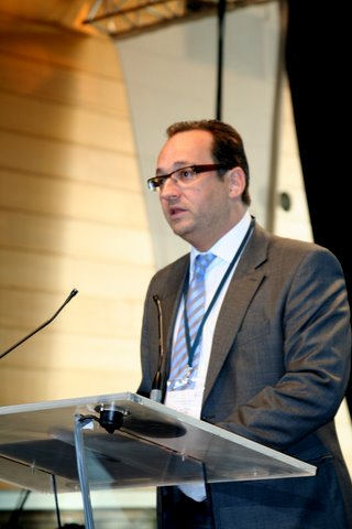 Stefan at EMAC 2012